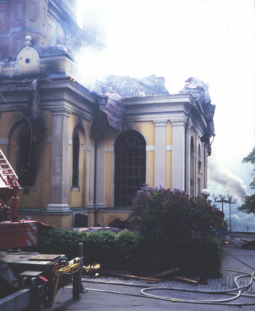 FOTOGRAFIKatarina kyrka efter branden i maj år 1990. 1990-1990FOTOGRAF: Okänd.BILDNUMMER: DIA 26029Stadsmuseet i Stockholm